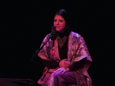 Sepideh Raissadat, Persian classical singer, in a concert in Amsterdam, 9th Nov 2012 - Photo by Persian Dutch Network